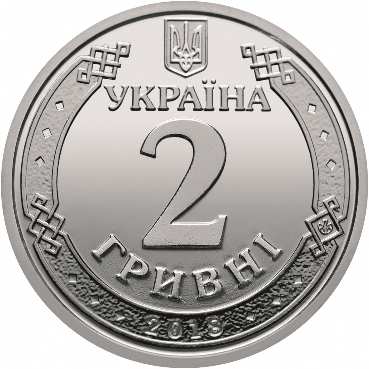 Ukrainian 2 hryvnia coin of 2018 series, averse. Steel with galvanic coating, 20.2 mm in diameter, weights 4.0 g, reeded edge.